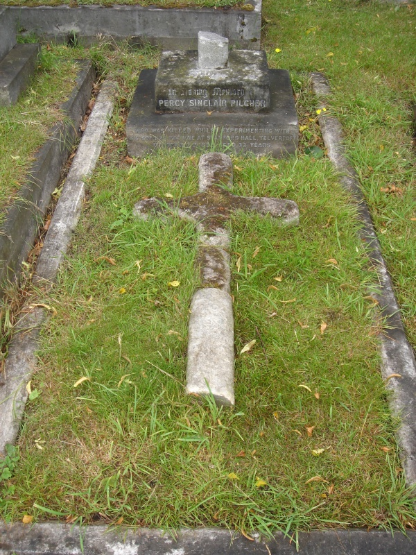 Percy Pilcher funerary monument, Brompton Cemetery, London